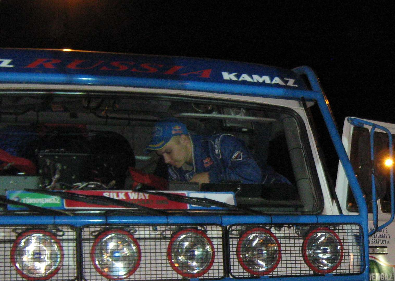 Eduard Nikolaev. Silk Way Rally. Finish podium. Ashgabat, 2009